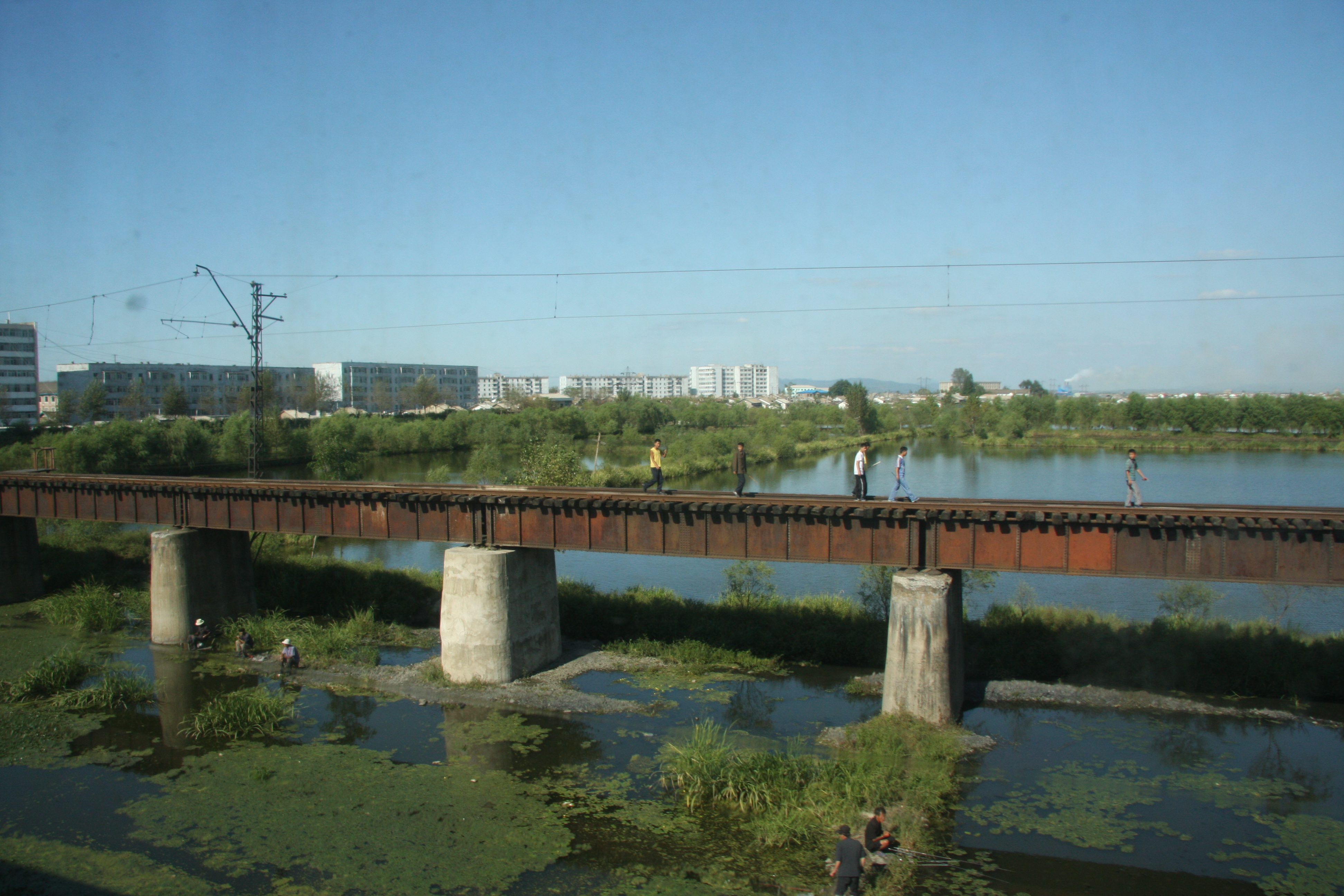 A railway bridge in North Korea.